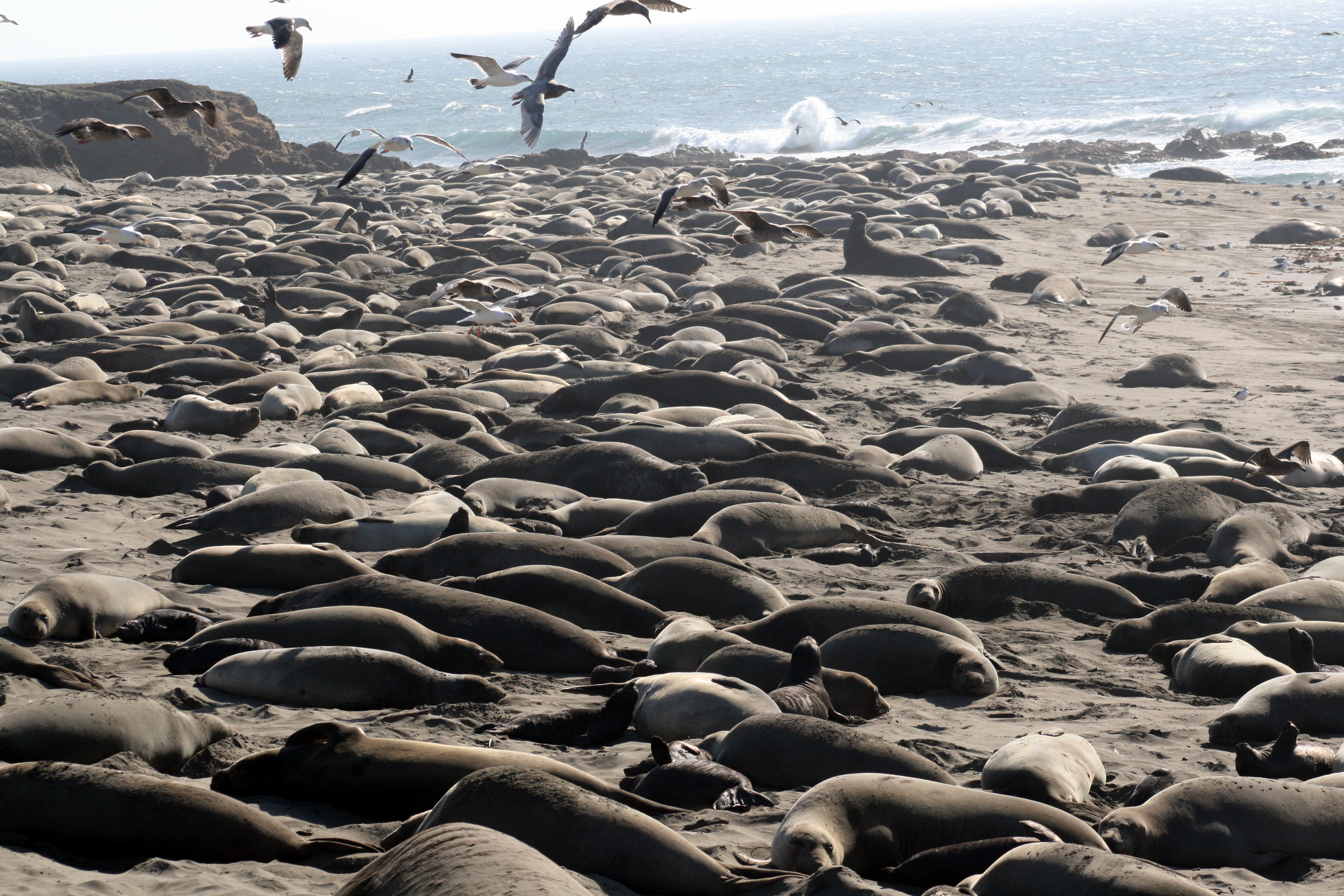 Breeding colony ofNorthern Elephant Seals in San Simeon, California